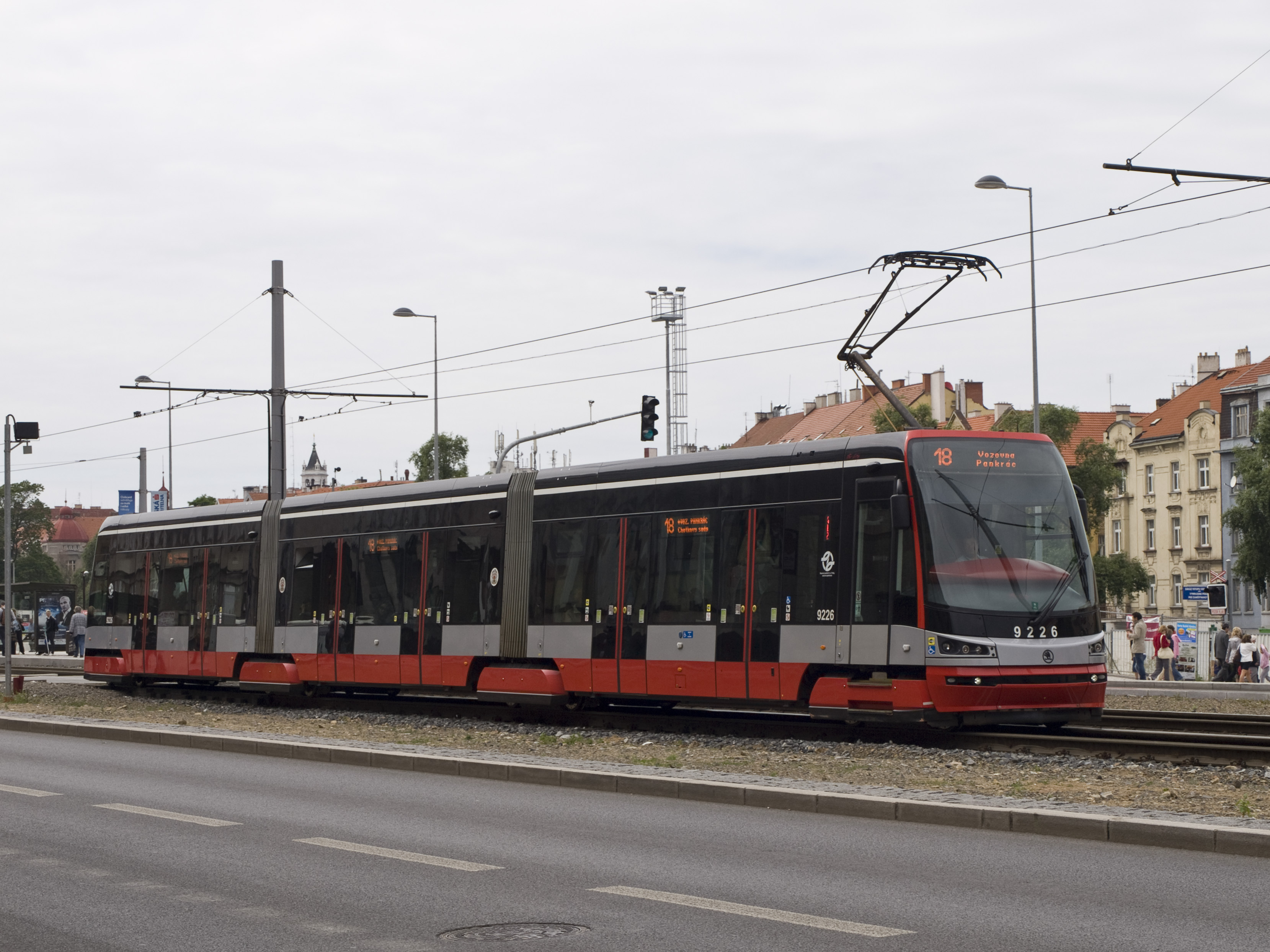 Škoda 15T, Hradčanská, Prague